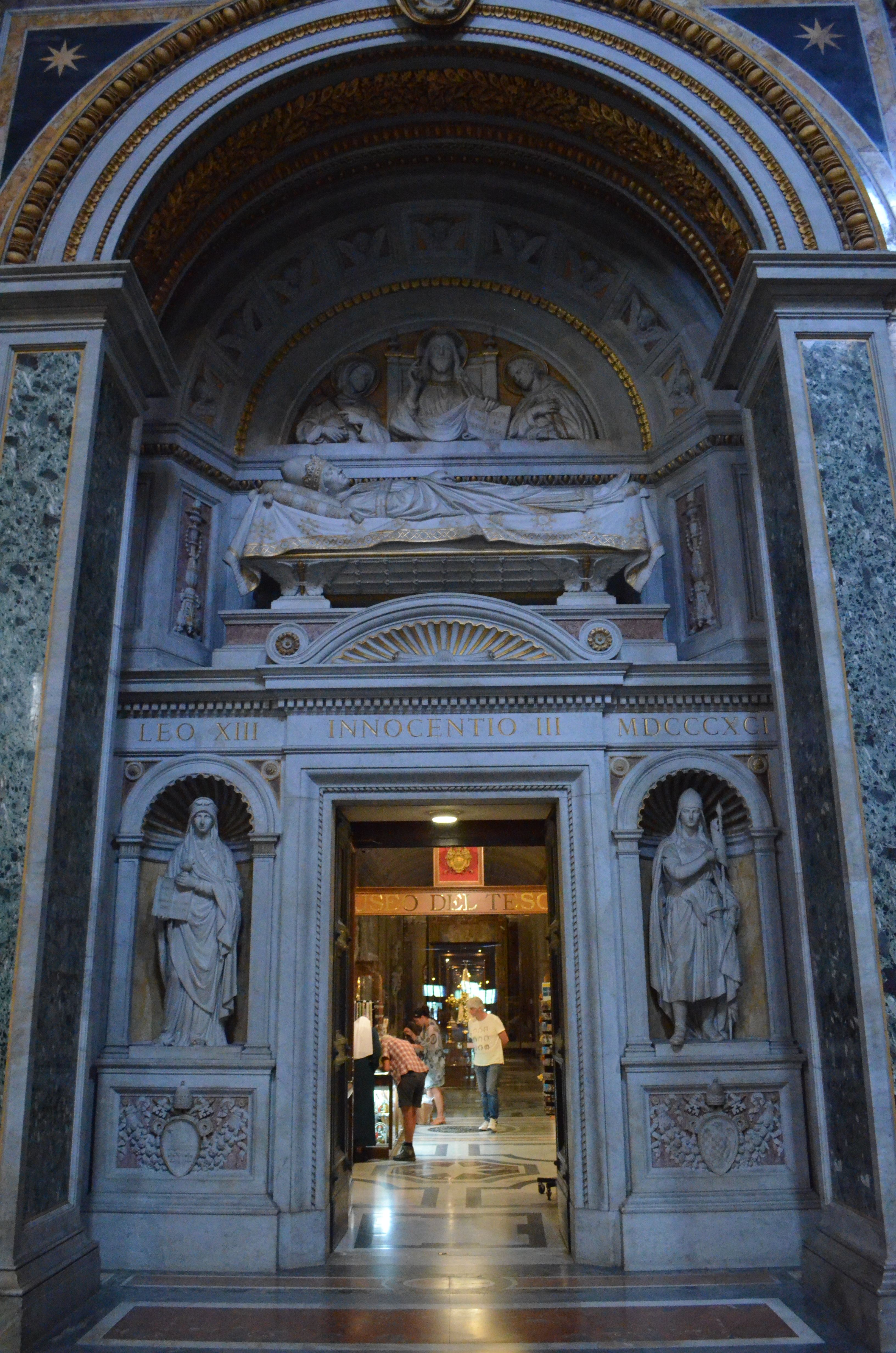 San Giovanni in Laterano (Rome)